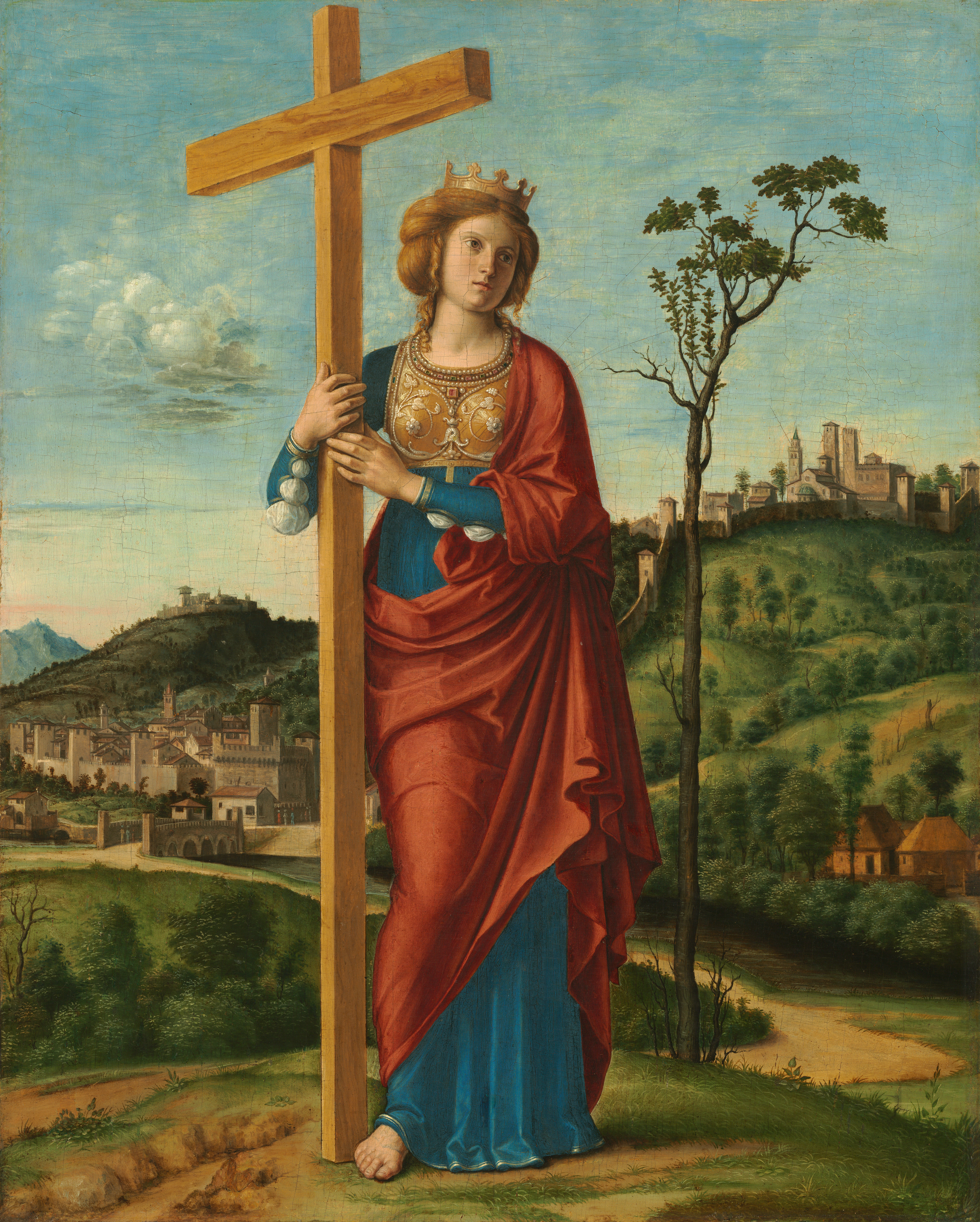 Saint Helena of Constantinople: this image is of a panel now in the National Gallery of Art (Washington, DC, United States).